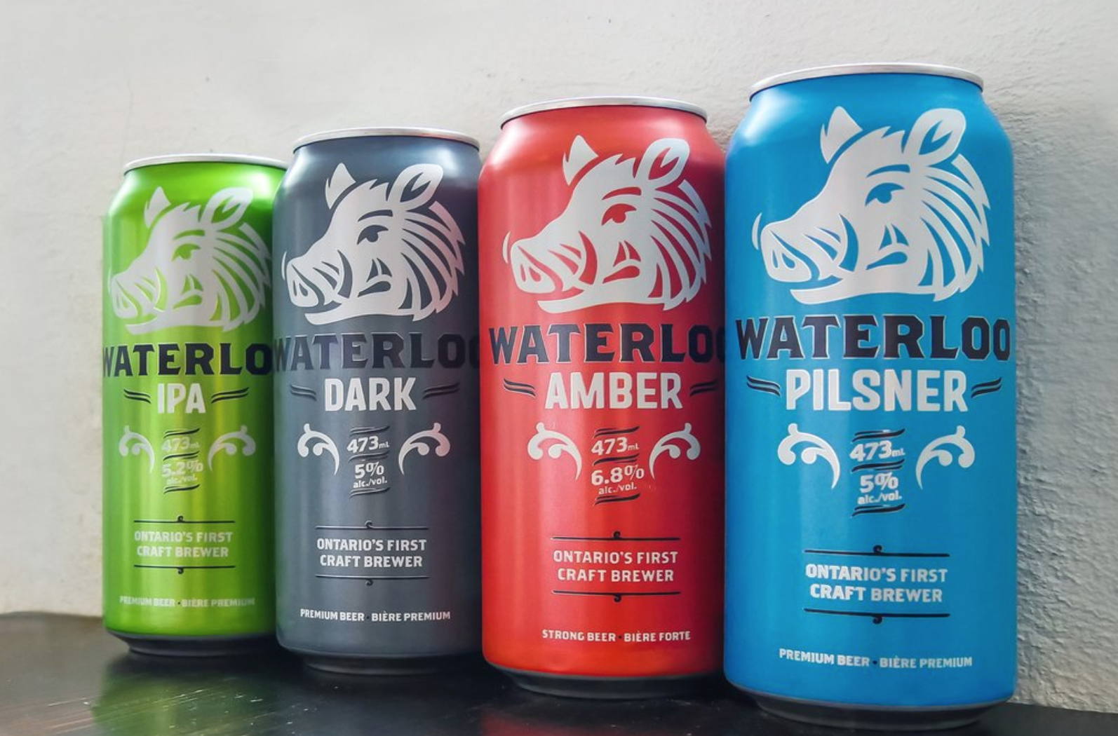 Waterloo Brewing's 4 core craft beers - IPA, Dark, Amber, and Pilsner